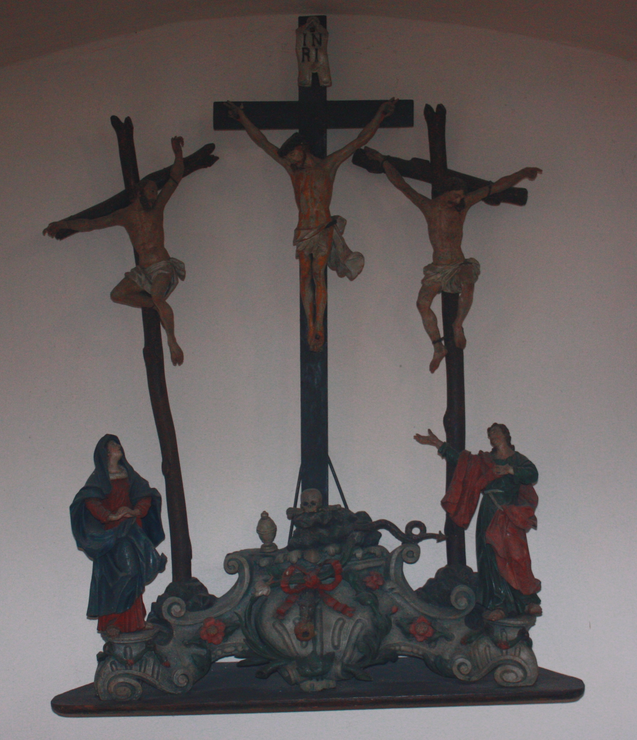 Subsidiary church - Crucifixion Locality: Zweikirchen Community: Liebenfels